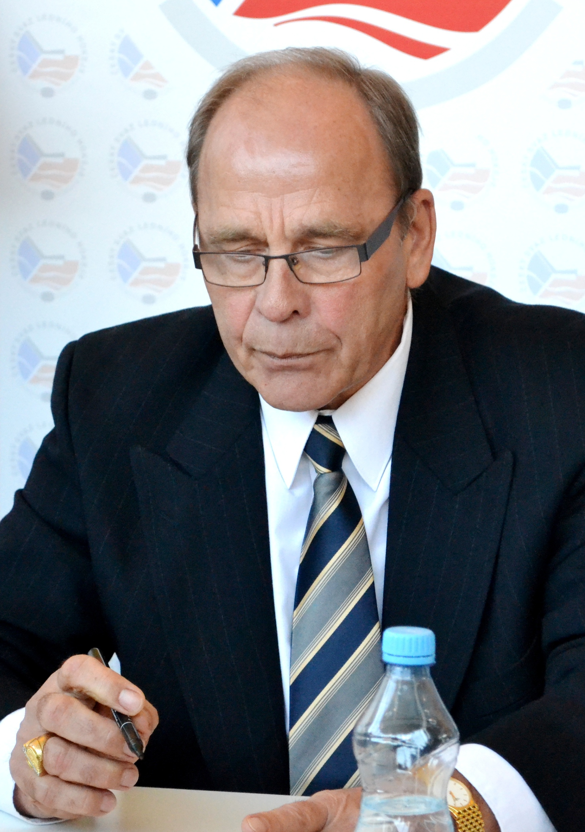 Jiří Bubla, Czechoslovak ice hockey player